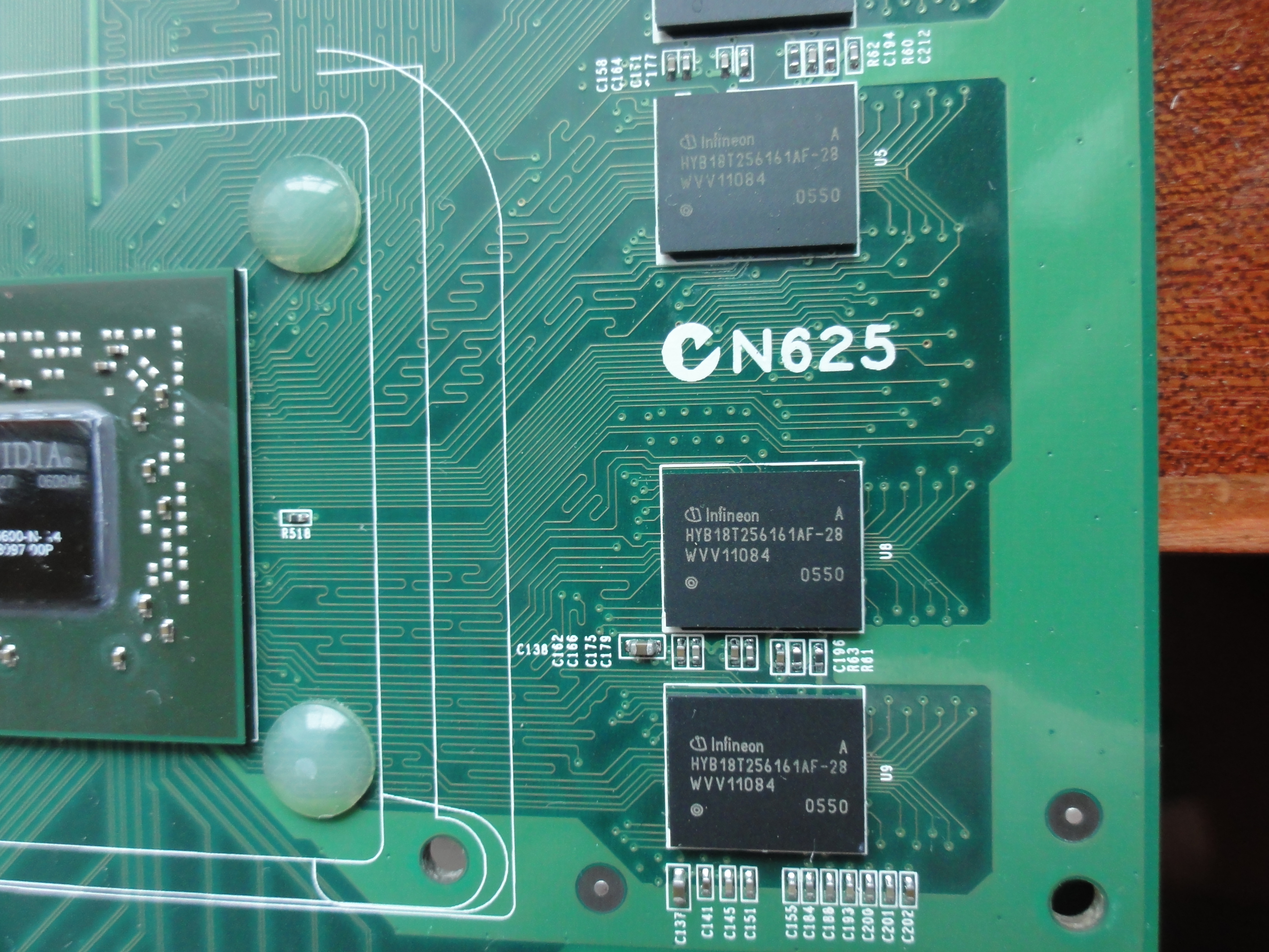 Infineon HYB18T256161AF-28 GDDR2 SDRAM ICs of a video card.